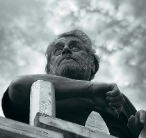 Portrait of Alexandre Varbedian